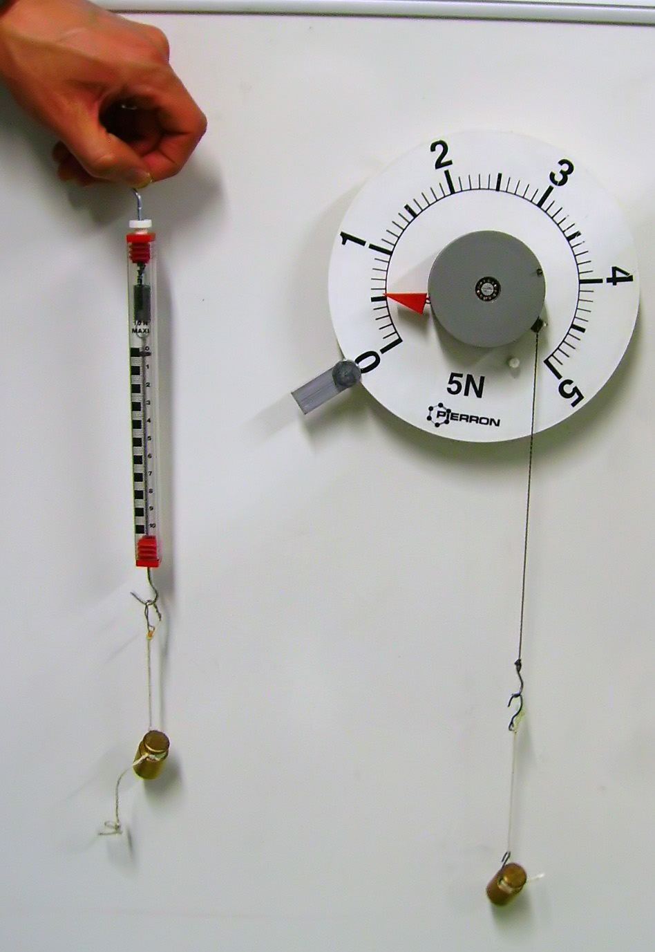 Spring dynamometers measuring the weight of brass reference masses.